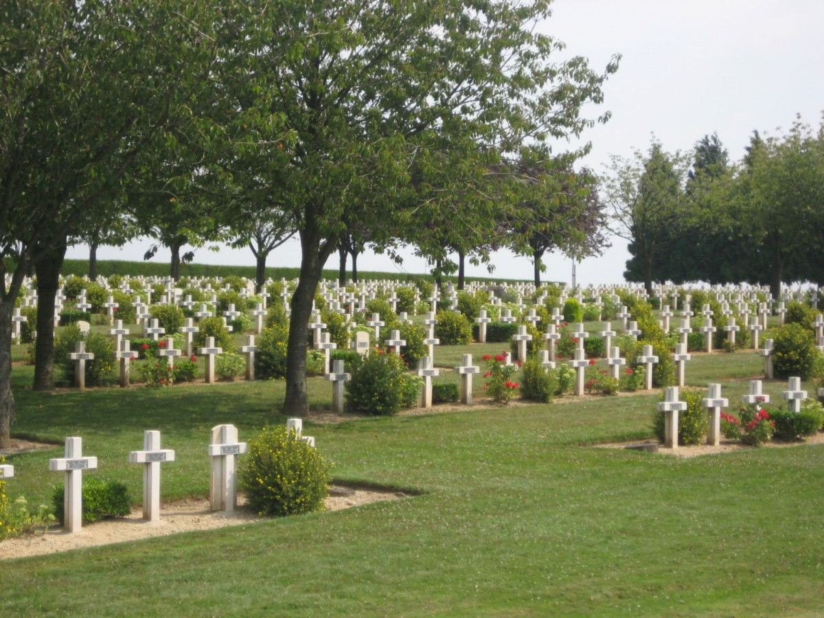 War Cemetry of Rancourt